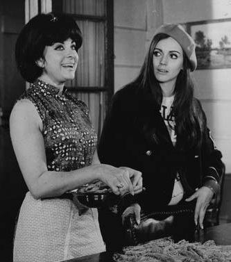 Che OVNI-película argentina